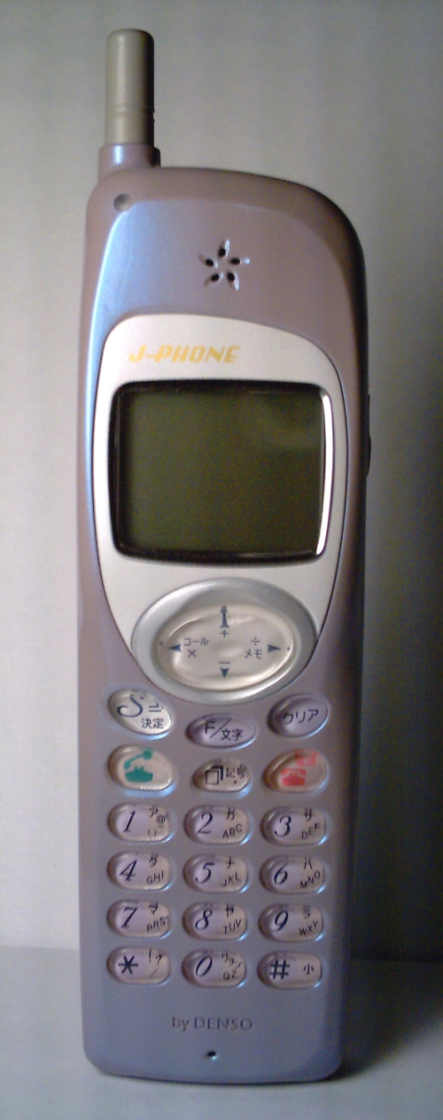 J-PHONE J-DN01_DENSO Mobile phones photography day, 2006.9.16. photography person kici